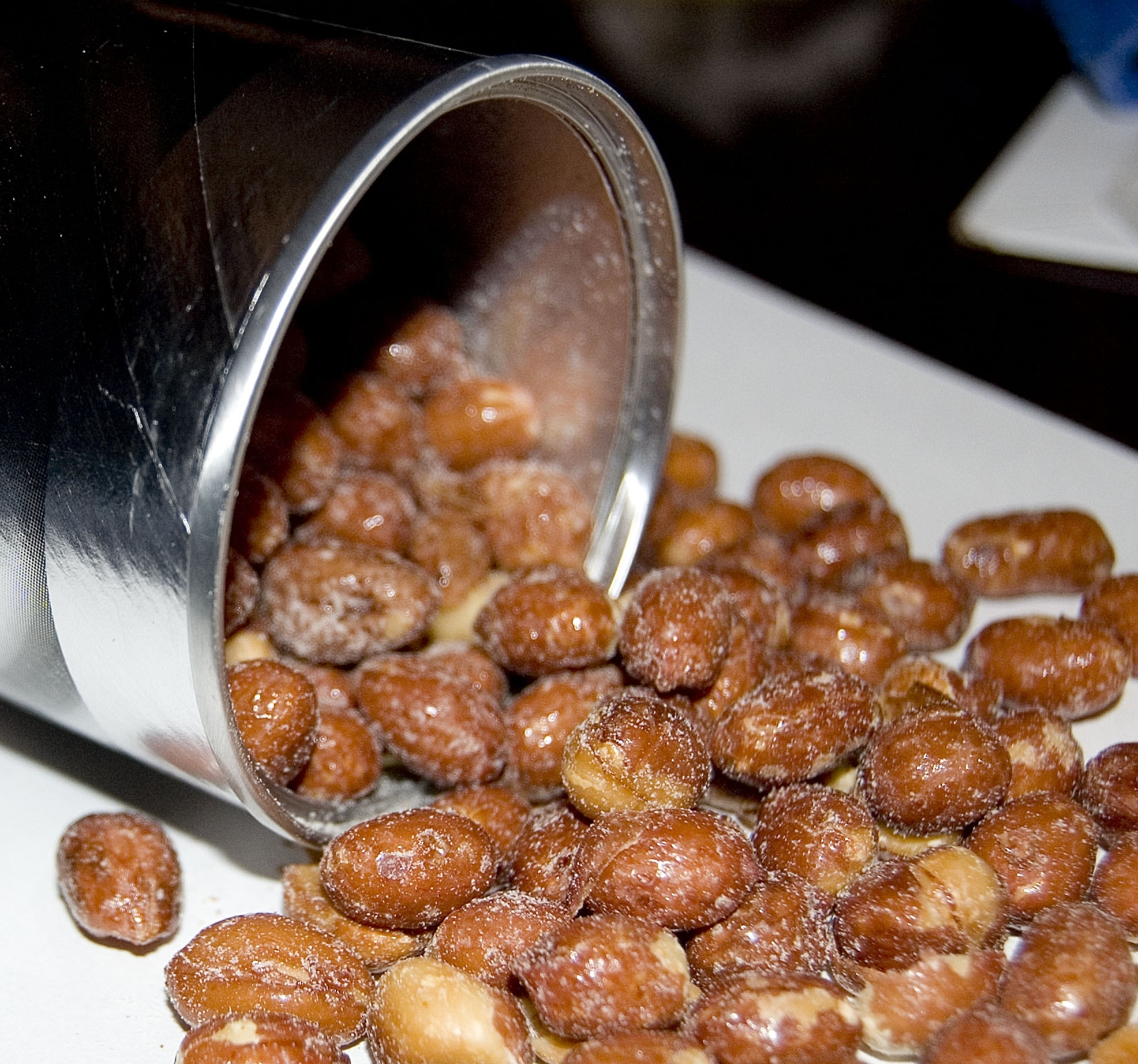 I took this photo of BEER NUTS on 4 January, 2007, specifically for uploading to Wikipedia. I hereby release it to the public domain.